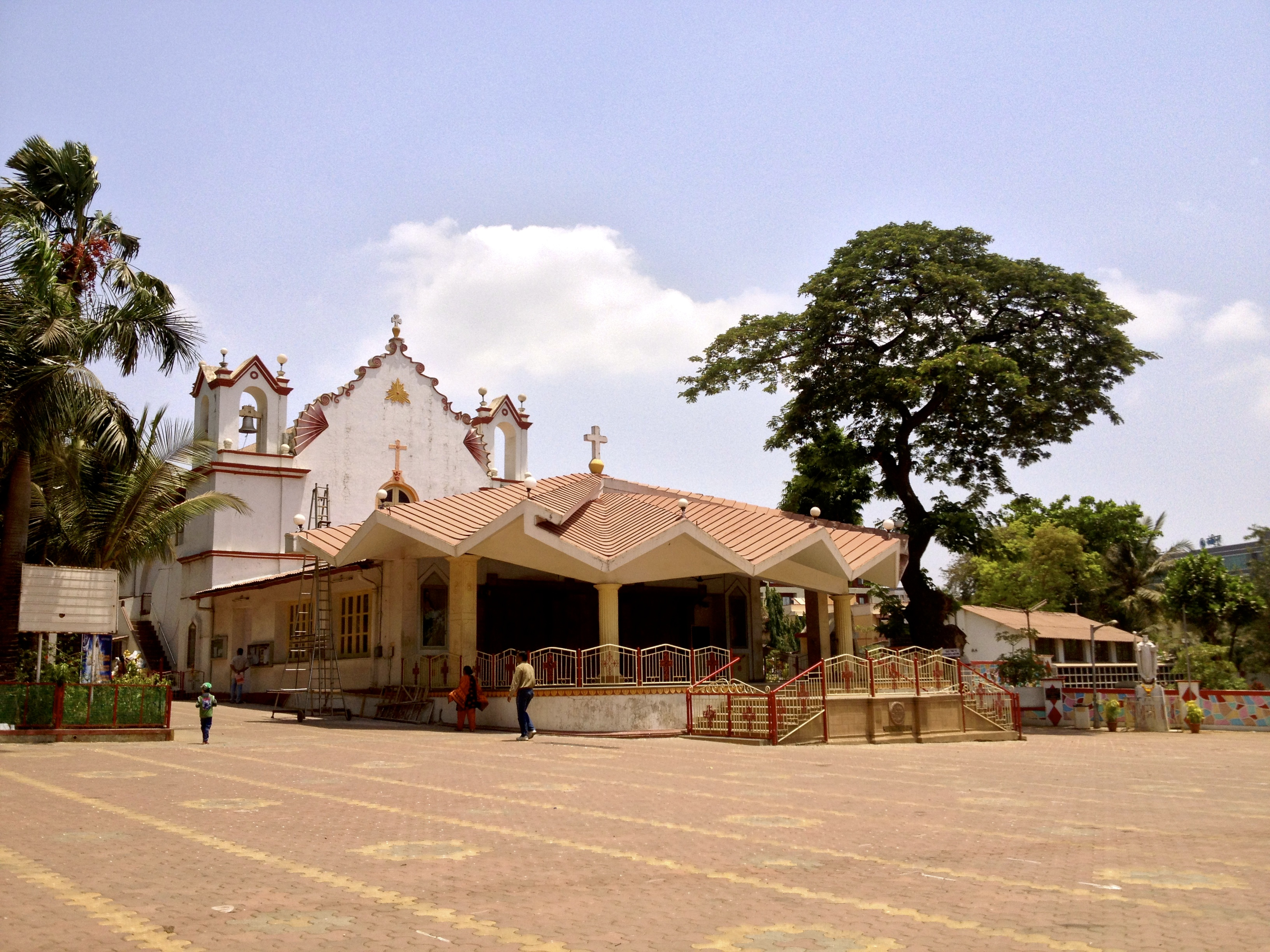 The church facade, taken in April 2013